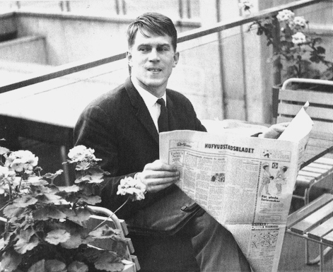 Photograph of the Finnish writer and journalist Gunnar Mattsson (1937–1989) reading Hufvudstadsbladet newspaper.